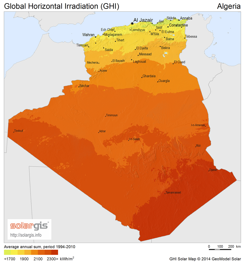 Solar Radiation Map: Global Horizontal Irradiation Map of Algeria, SolarGIS. English version.